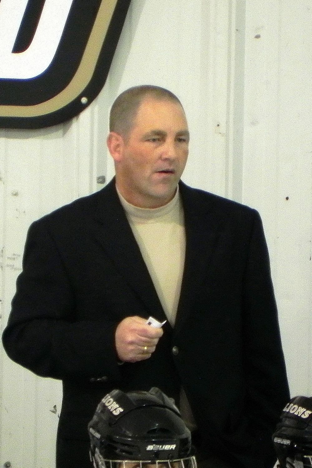 Vince O'Mara, coaching Lindenwood University women's ice hockey team against Mercyhurst College in game on October 29, 2011.